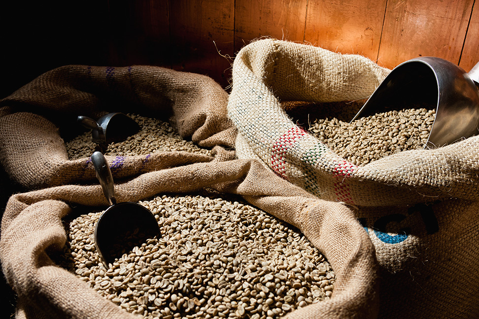 Coffee owned by Terra Nera